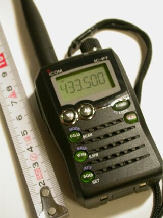 Handheld Transceiver 144 / 430 MHz (2m / 70cm band), 1.5 / 1 W. The model is the Icom IC-P7, photographed next to a centimeter ruler for size comparison. (It is 81 mm tall, according to its Icom product page.)